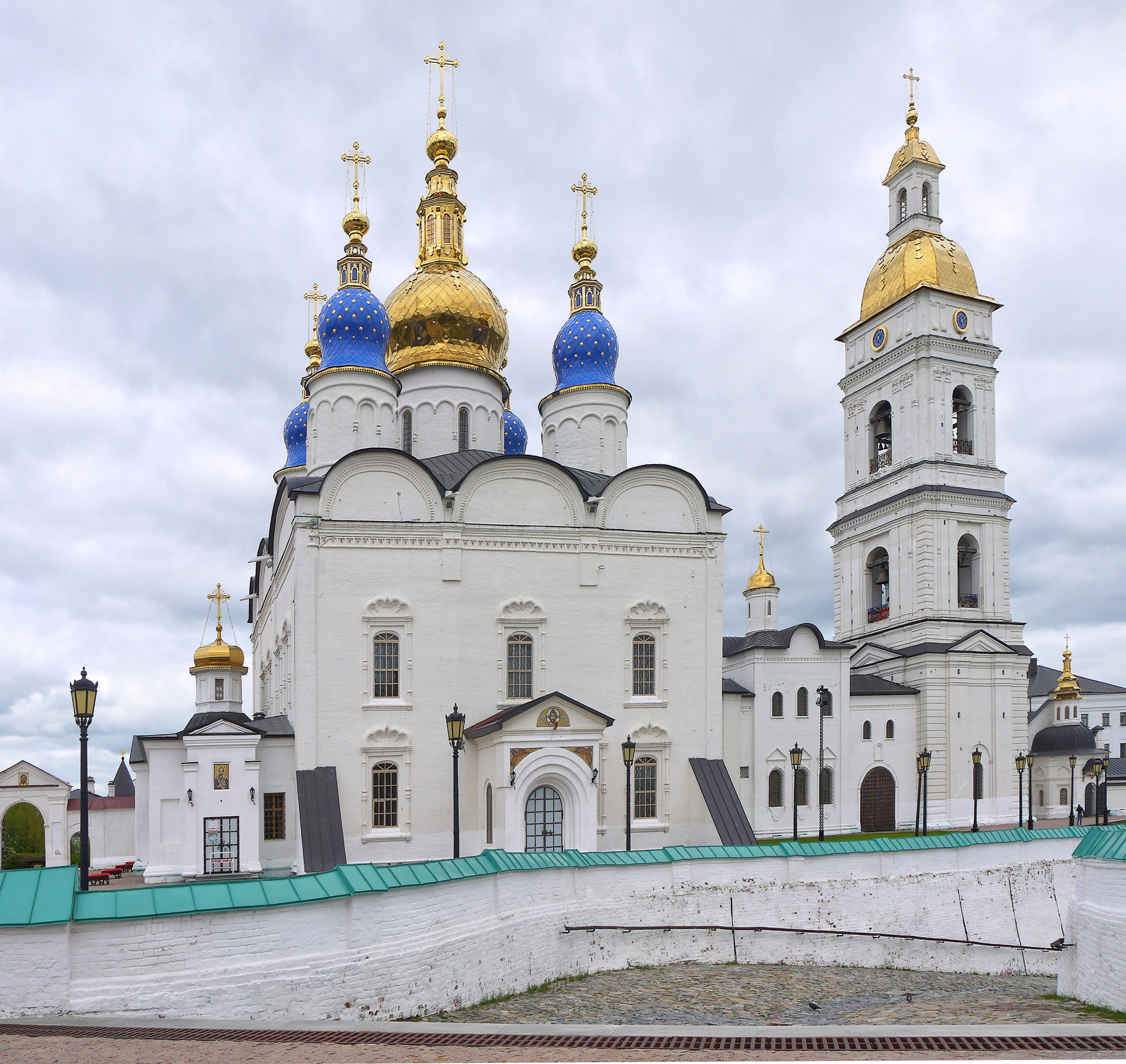 Saint Sophia and Dormition Cathedral.